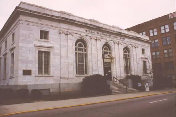 Federal Building-U.S. Courthouse, Gainesville (Hall County, Georgia) - GSA